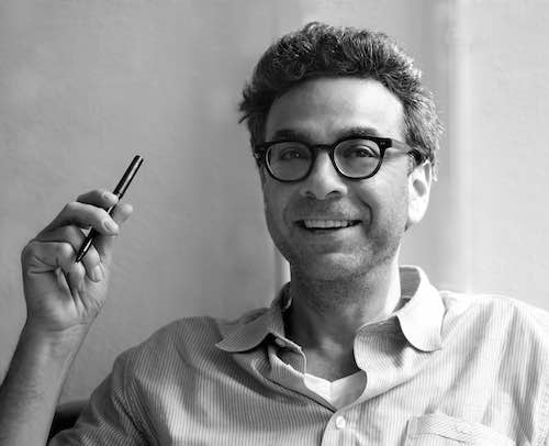 Author's photograph used in "Think Like a Freak."